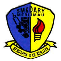 Logo Sekolah